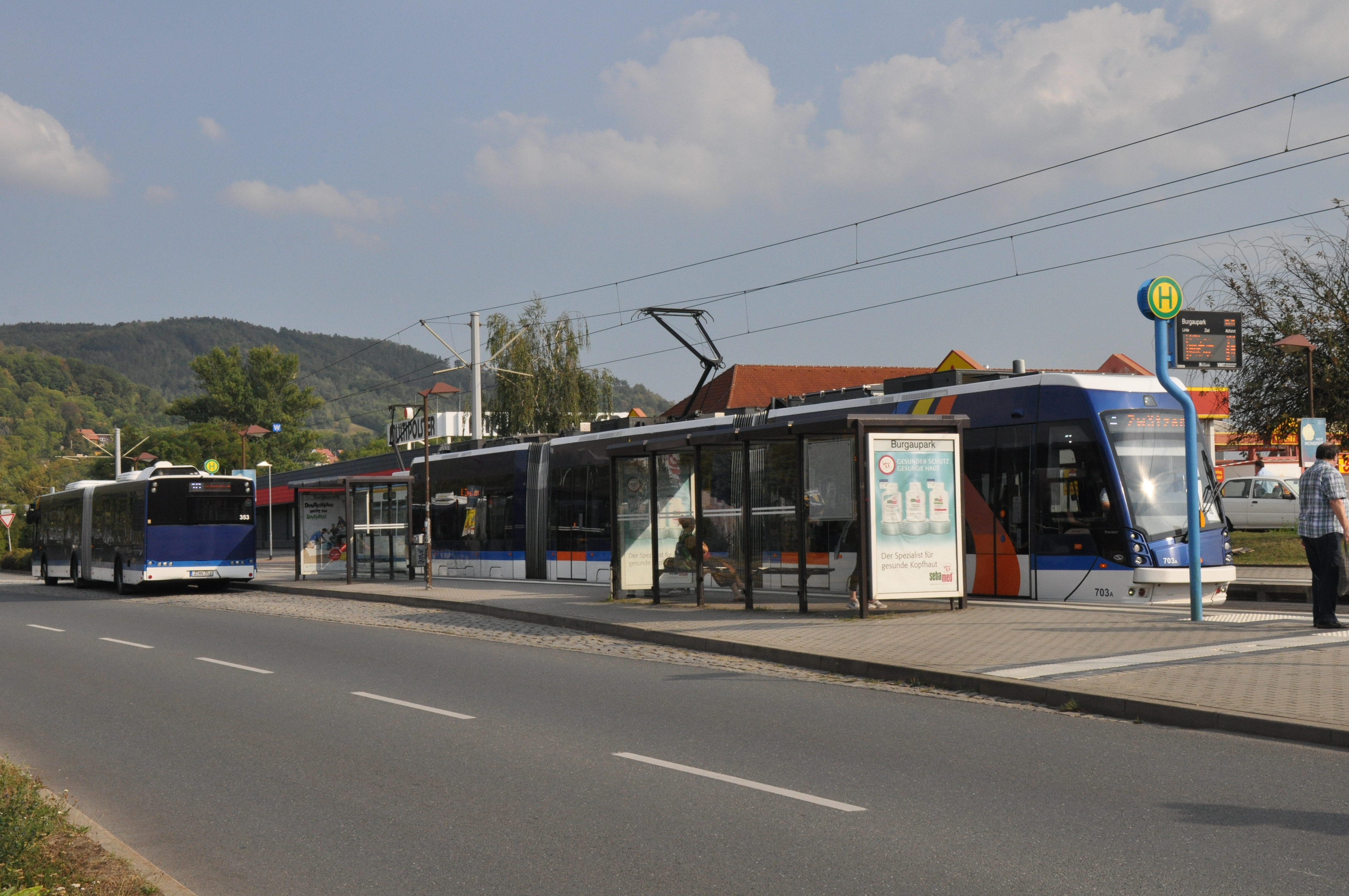 Tram and bus stop Jena Burgau, Burgaupark